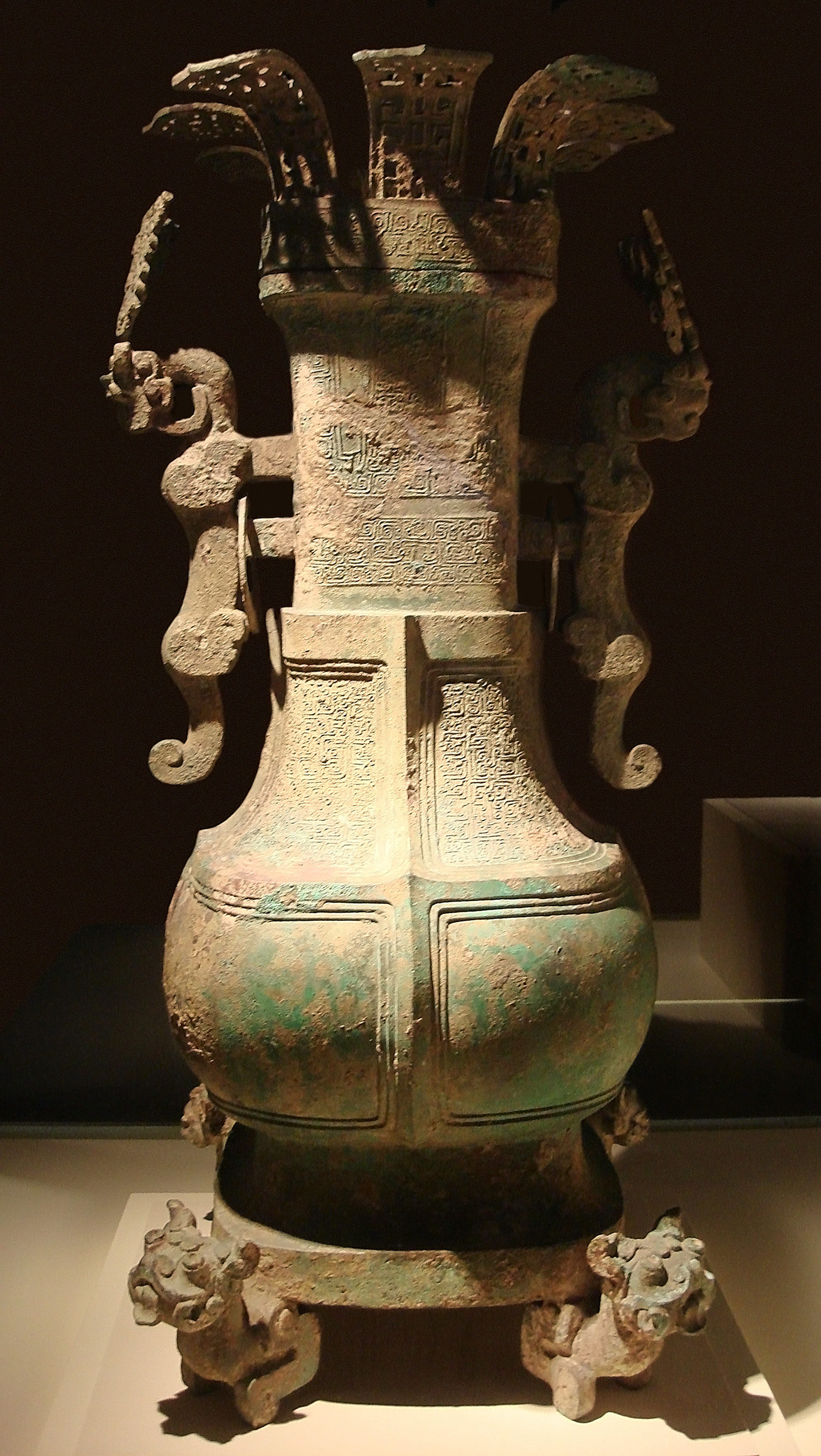 Square Bronze Hu (wine/water storeage vessel) Eastern Zhou Dynasty Spring and Autumn Period (770 - 476 B.C.) Excavated at Shouxian, Anhui Province, 1955 From the State of Cai, which was bestowed upon Lord Shen by the king of Zhou (his older brother) and annexed by the State of Chu in 447 B.C., this vessel features a cross surrounded by coiled dragon patterns, dividing the body of the vessel into sections. Lotus-like petal openwork ornaments the top.